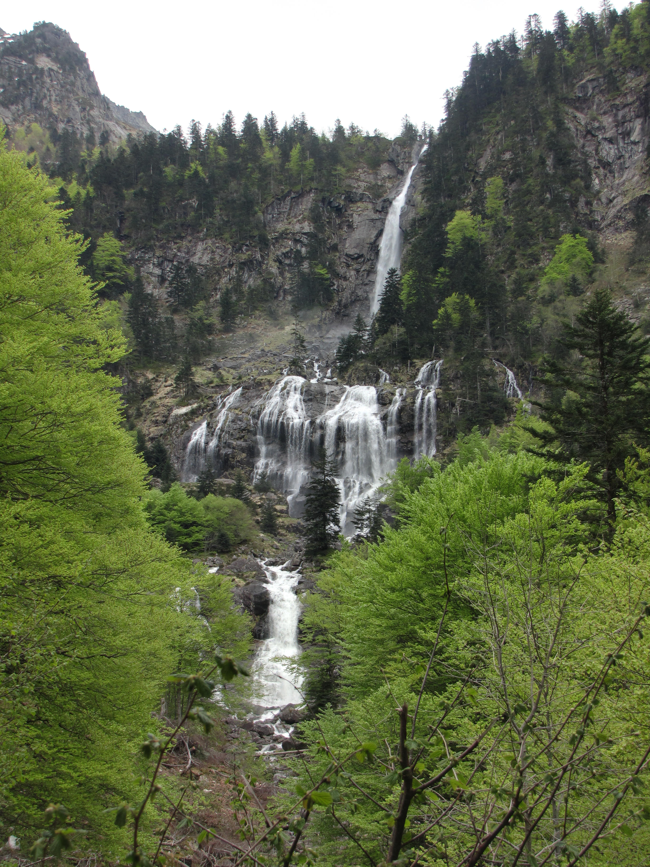 Cascade d'Ars, Ariège, France.